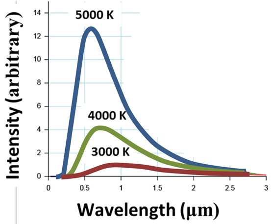 Black body radiation vs wavelength. Similar to File:Black body.svg but with larger font and fatter curves